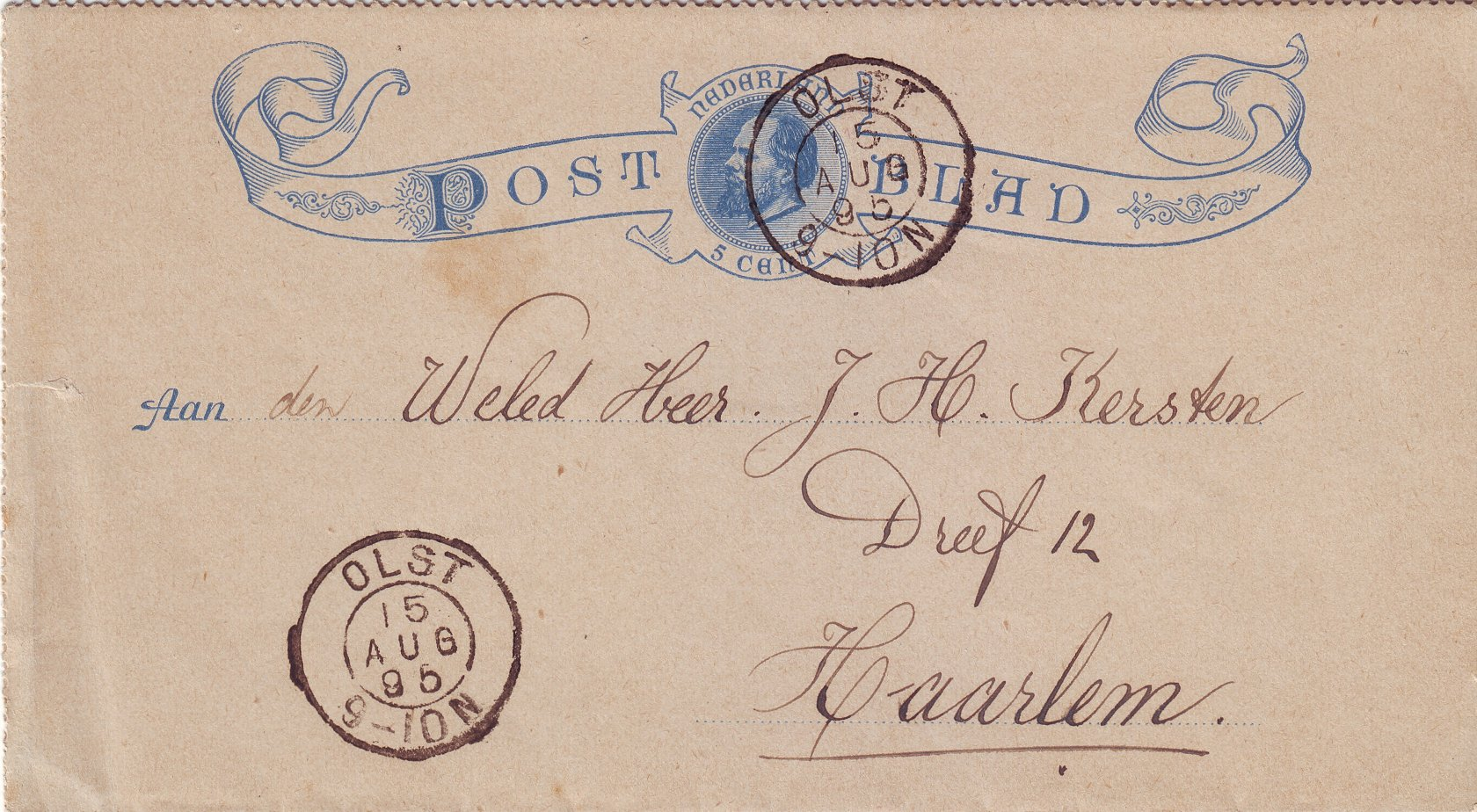 Letter sheet of the Netherlands, sent from Olst to Haarlem on 15 August 1895.